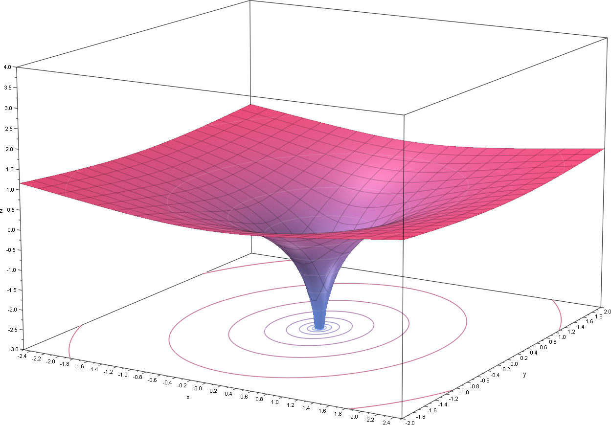 Graph of z = Re(ln(x+iy)), selfmade with MuPad.